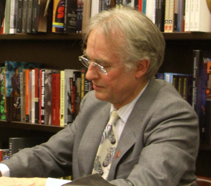 Professor Richard Dawkins at a book signing for the paperback edition of The God Delusion at Barnes and Noble in lower Manhattan, March 14, 2008.